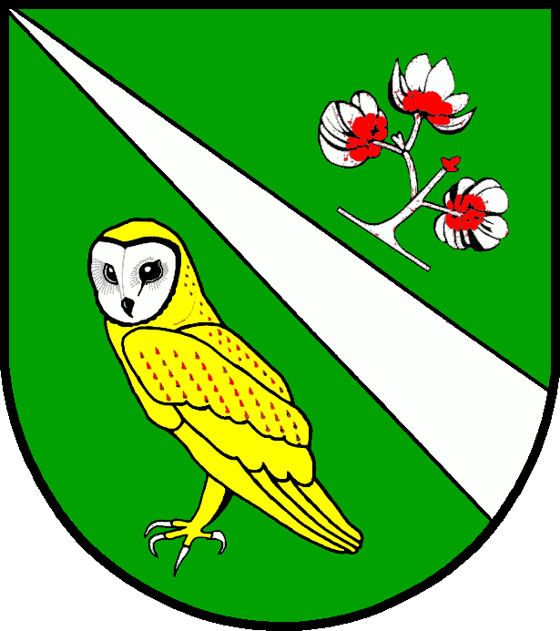 Coat of arms of the municipality Krüzen in Schleswig-Holstein, Germany.